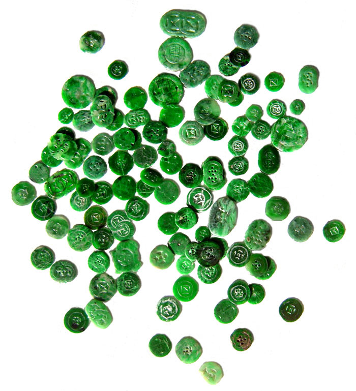 A selection of antique, hand-made Chinese jadeite jade buttons. Typical colour variation is apparent. Image was taken in natural light to present colours as true as possible. Photo by Gregory Phillips, April 2004. Image:Chinese_jadeite_buttons.jpg